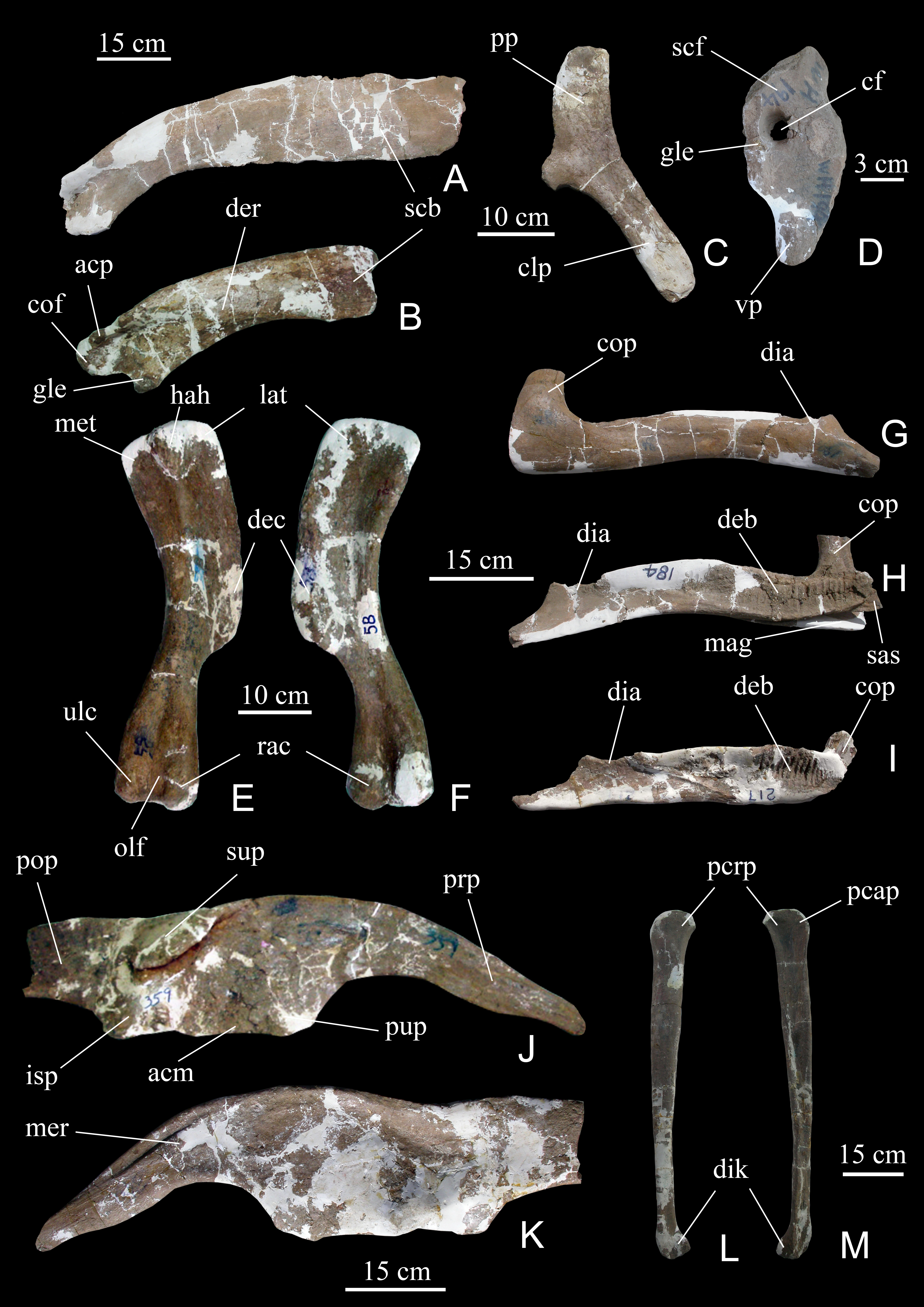 Wulagasaurus revision